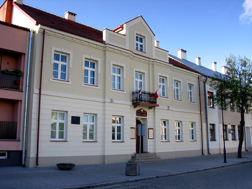 City of Ostroleka (Poland), building of the Museum of Kurpiowska Culture.